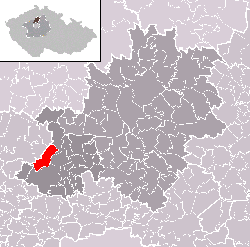 Location of Nelahozeves municipality within Mělník District and administrative area of Kralupy nad Vltavou as a Municipality with Extended Competence.